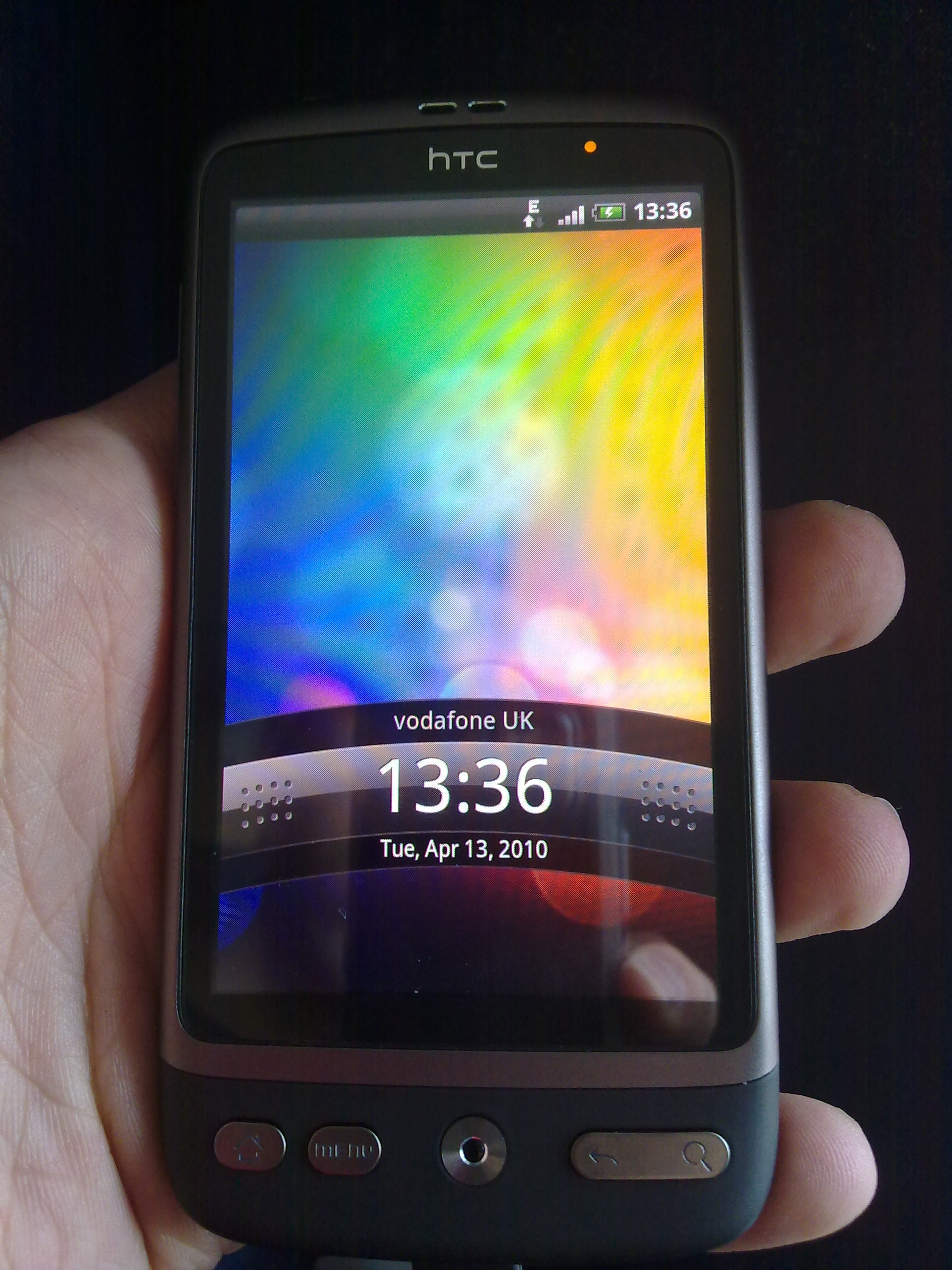 HTC Desire introduced in its owner palm